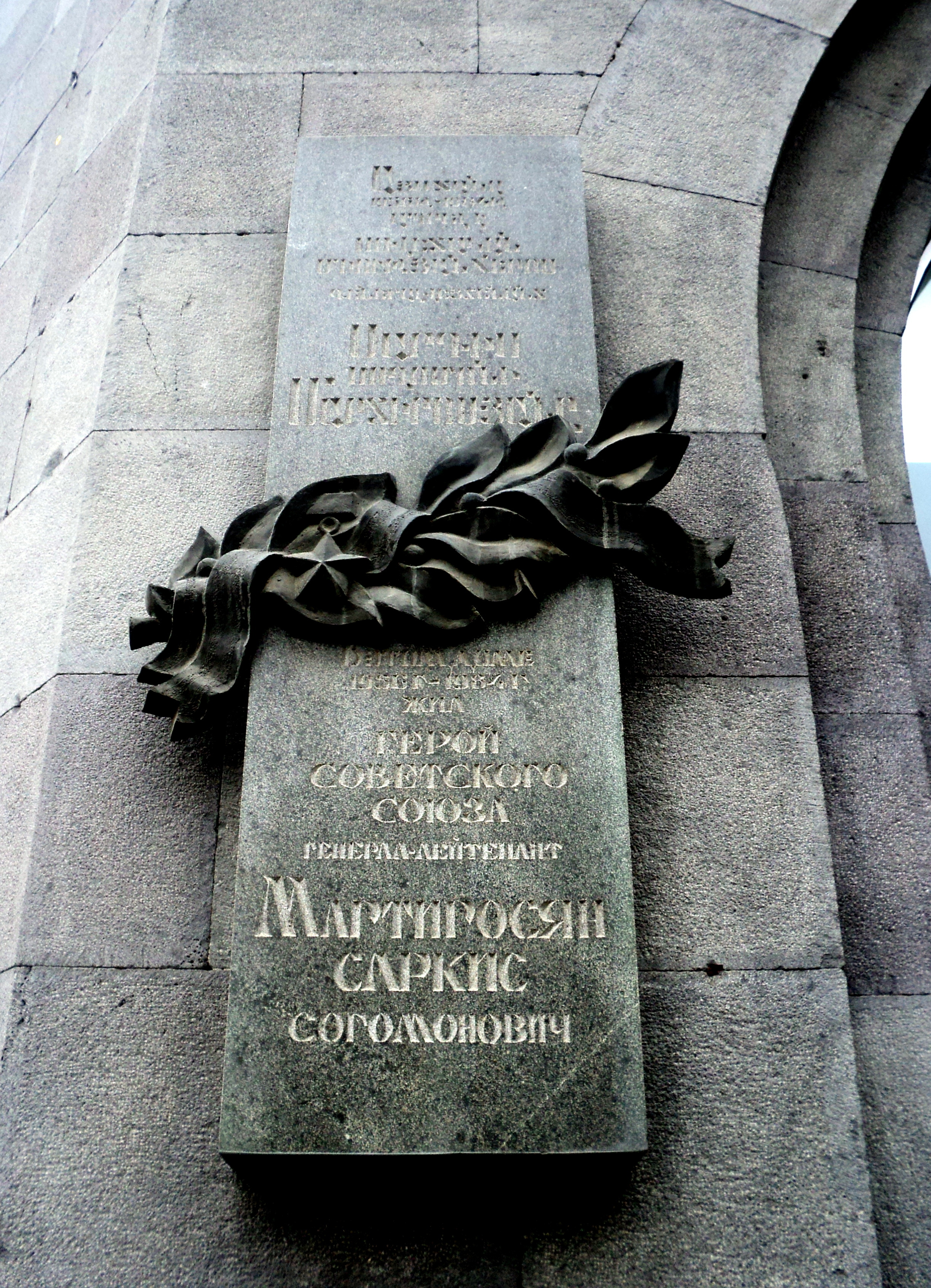 Sargis Martirosyan's Plaqye